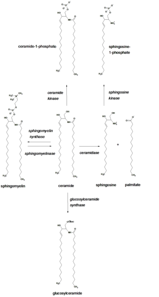 Sphingolipid second messengers. Ceramide is right at the central metabolic hub, leading to the formation of other sphingolipids.